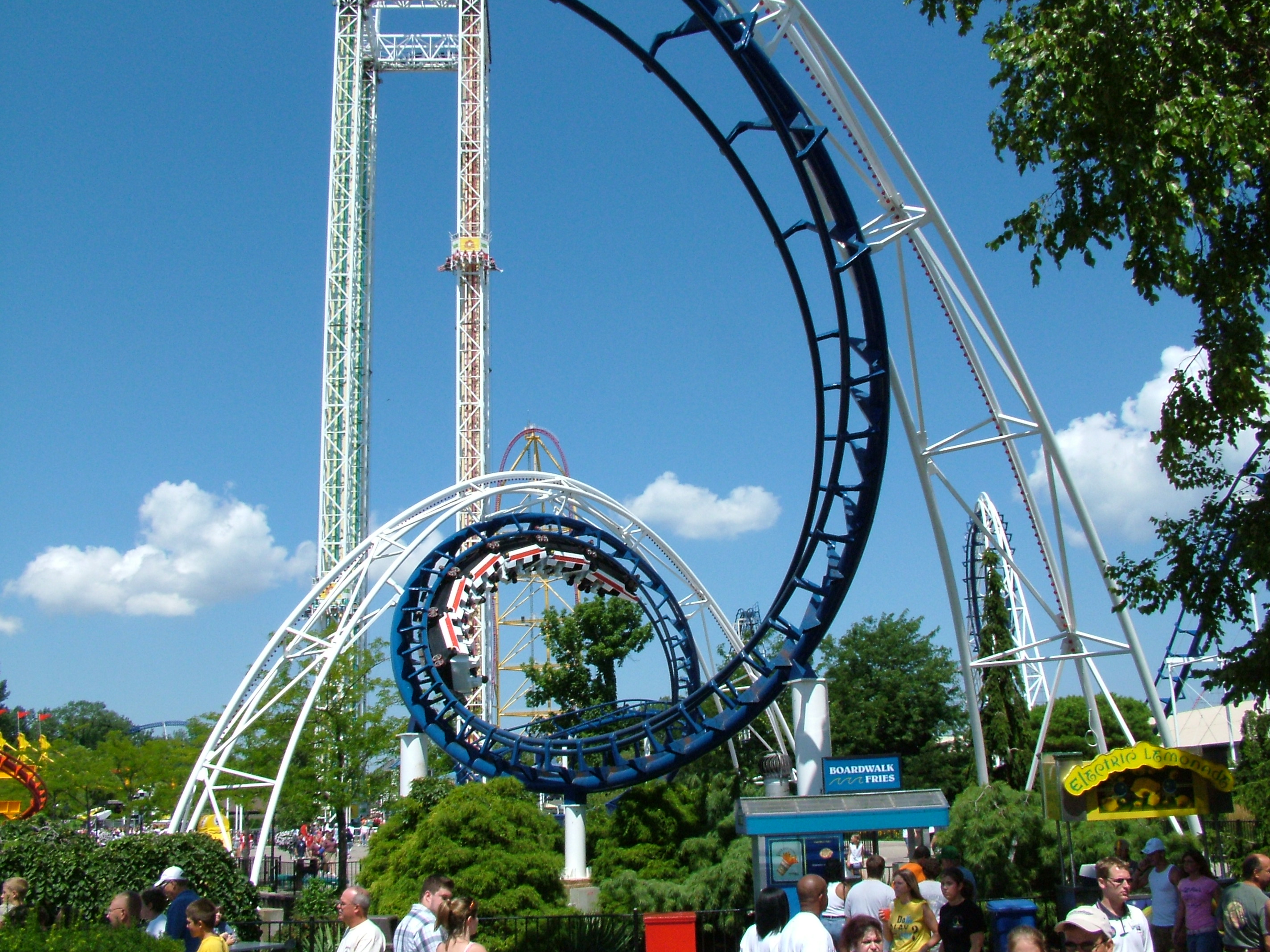 Subject: Corkscrew at Cedar Point in Sandusky, OH Author: Nick Nolte Taken: August 8, 2004